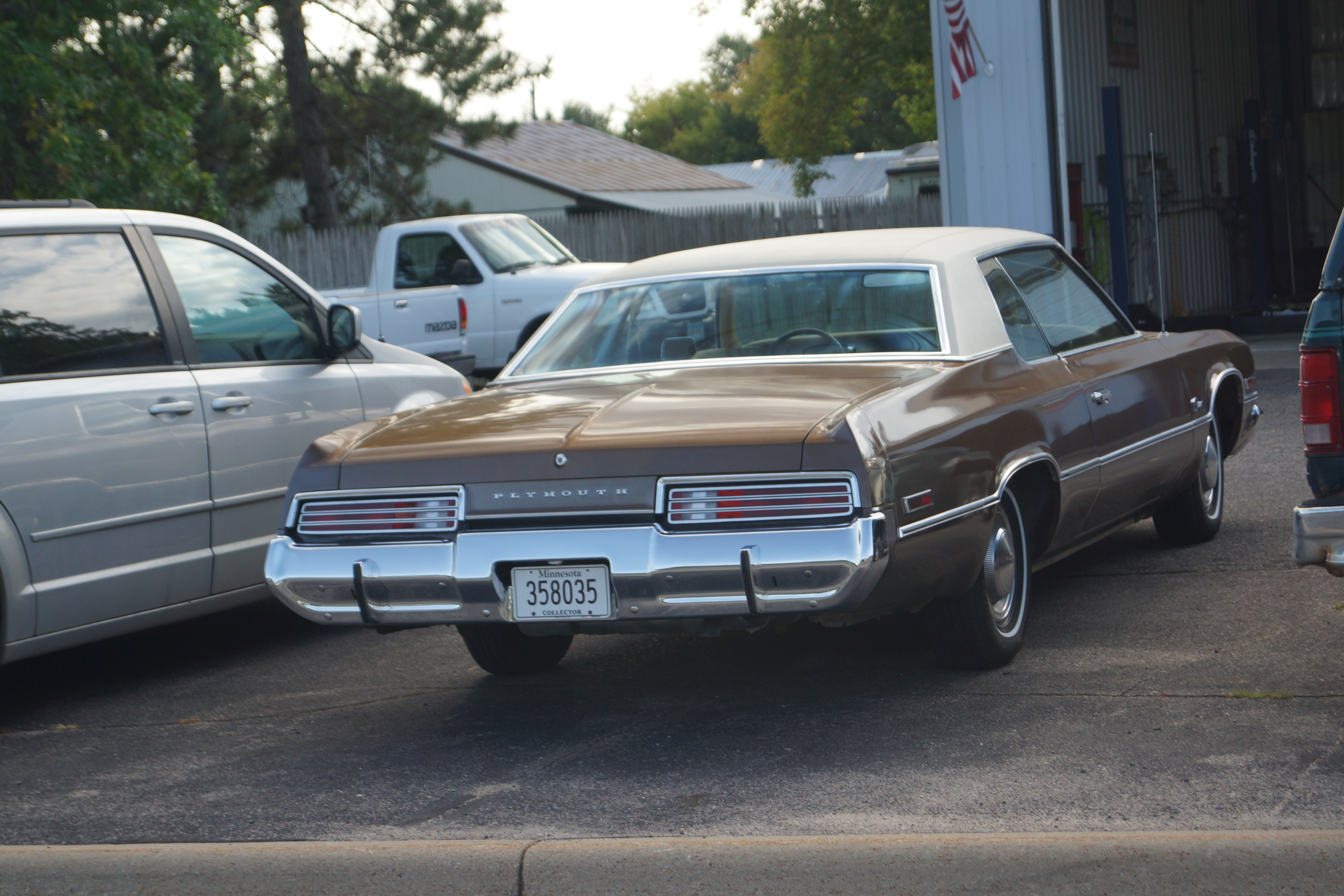 ******** Click here for more car pictures at my Flickr site. Or here for my Car Crazy Tumblr site. Or on Twitter @DVS1mn.